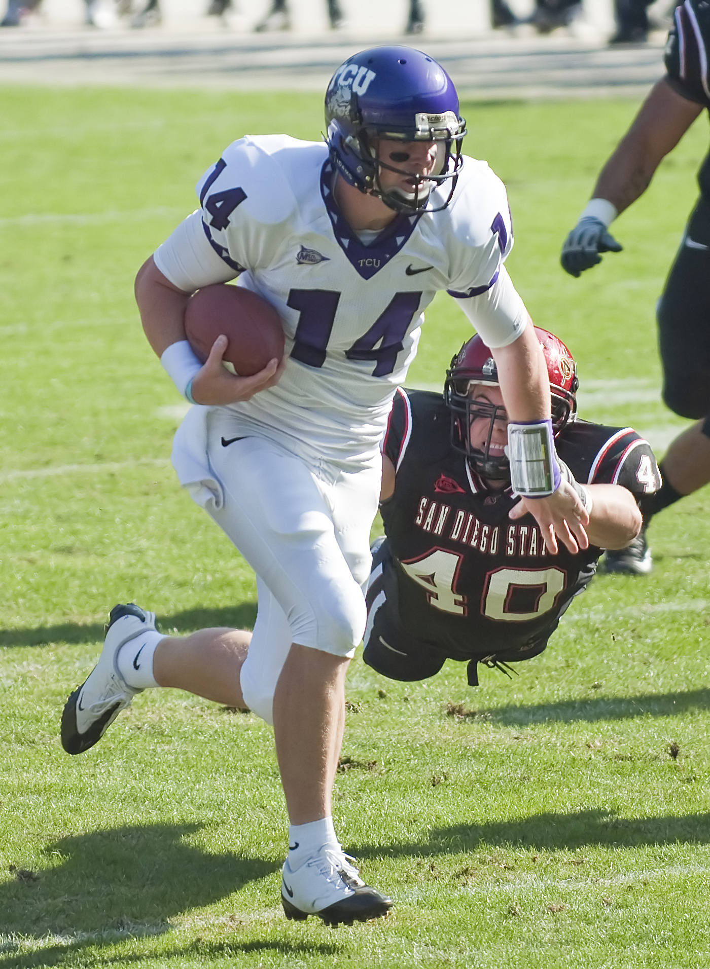 TCU Horned Frogs quarterback Andy Dalton in a game against San Diego State in November 2009.